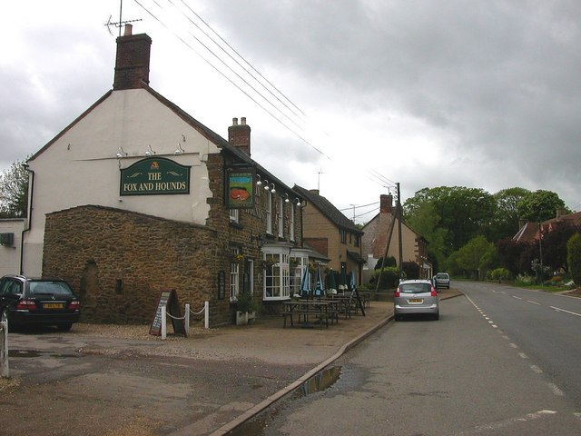 Charwelton. The Fox and Hounds Public House on the busy A361.